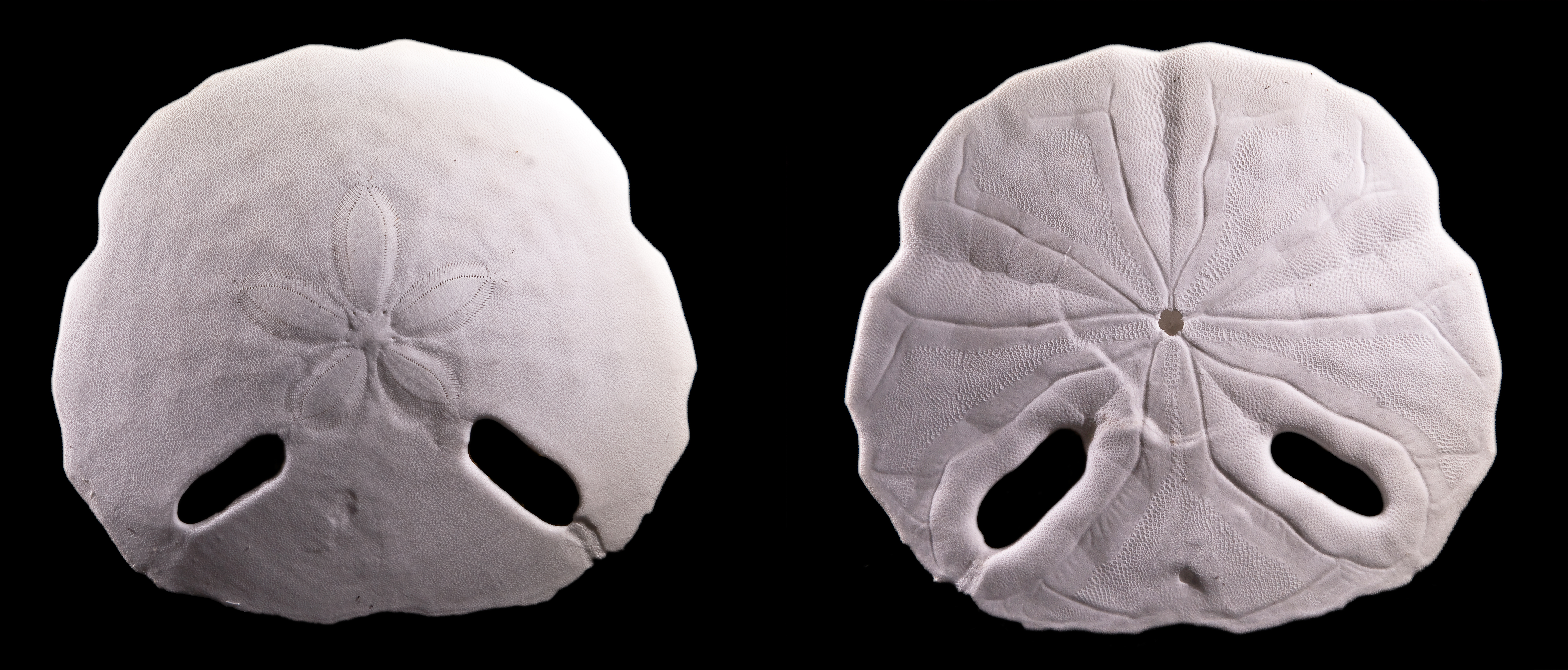 Echinodiscus tenuissimus - dorsal and ventral view of same test (7cm) - Bali Indonesia